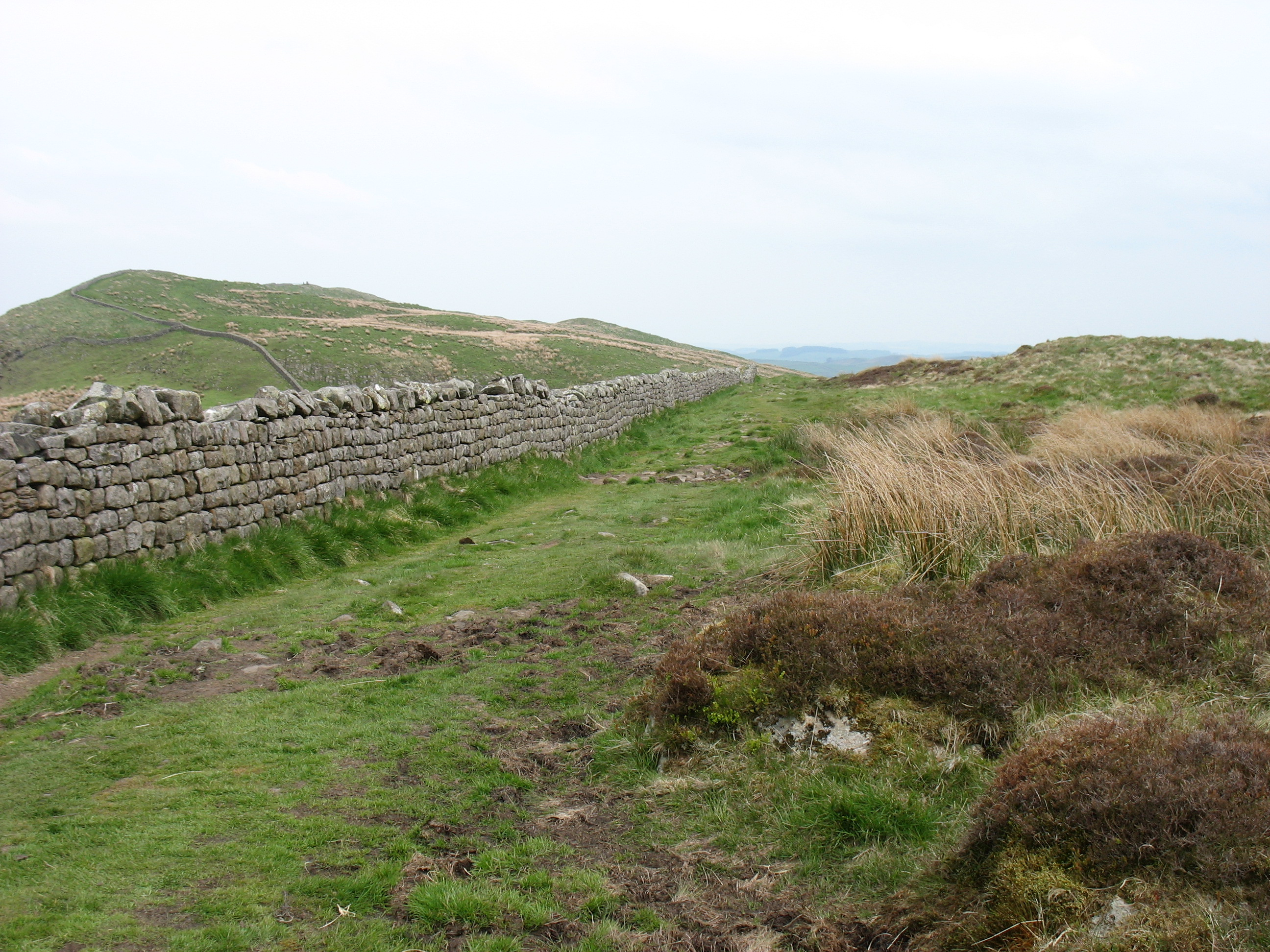 The Hadrian's Wall Path near Winshield Crags